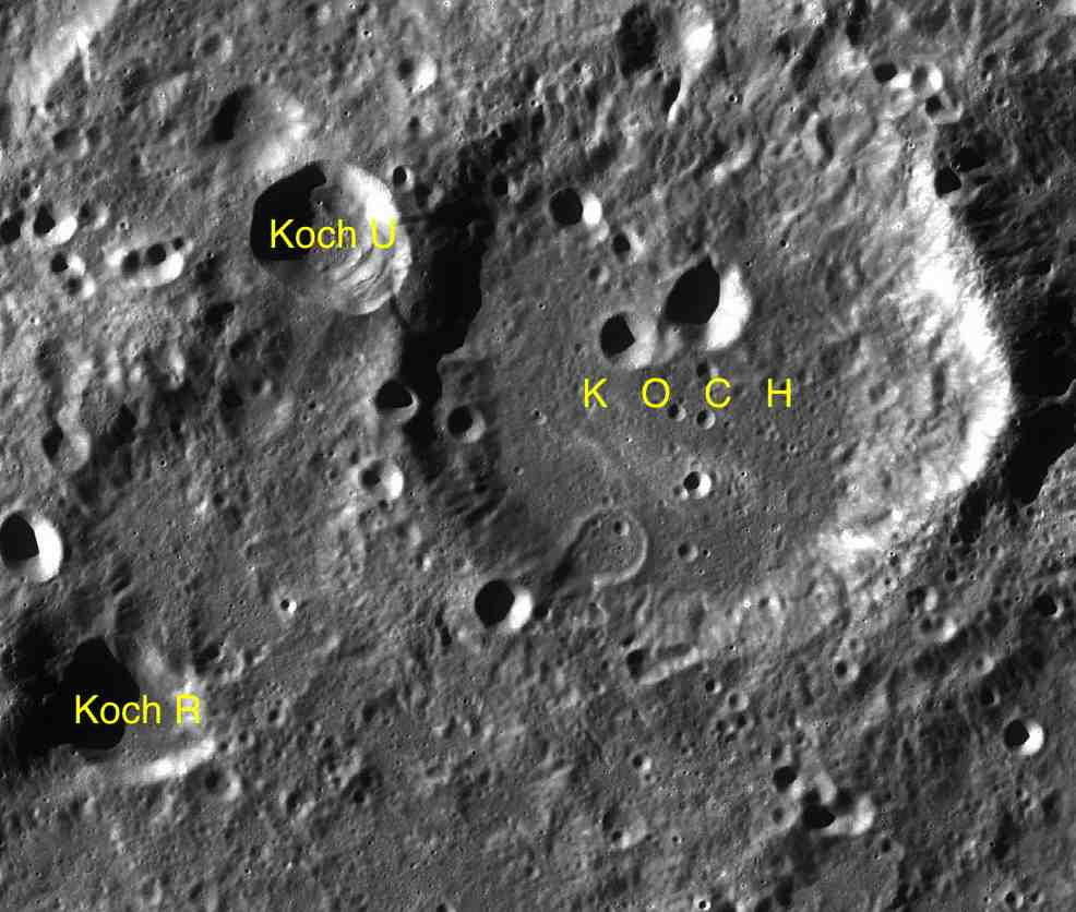 Part of the chart LAC-118 used for the presentation